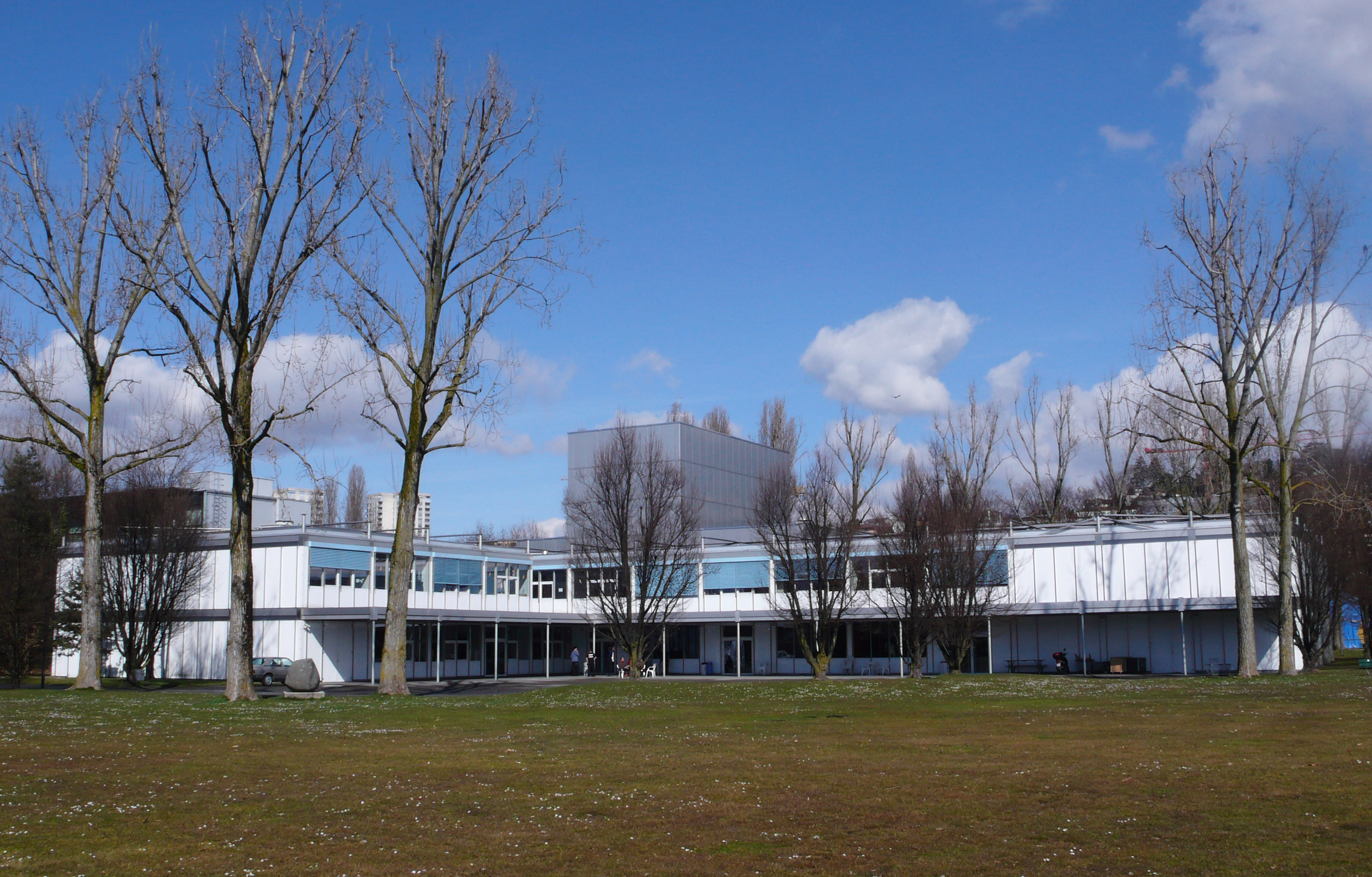 Theatre de Vidy in Lausanne, view from south